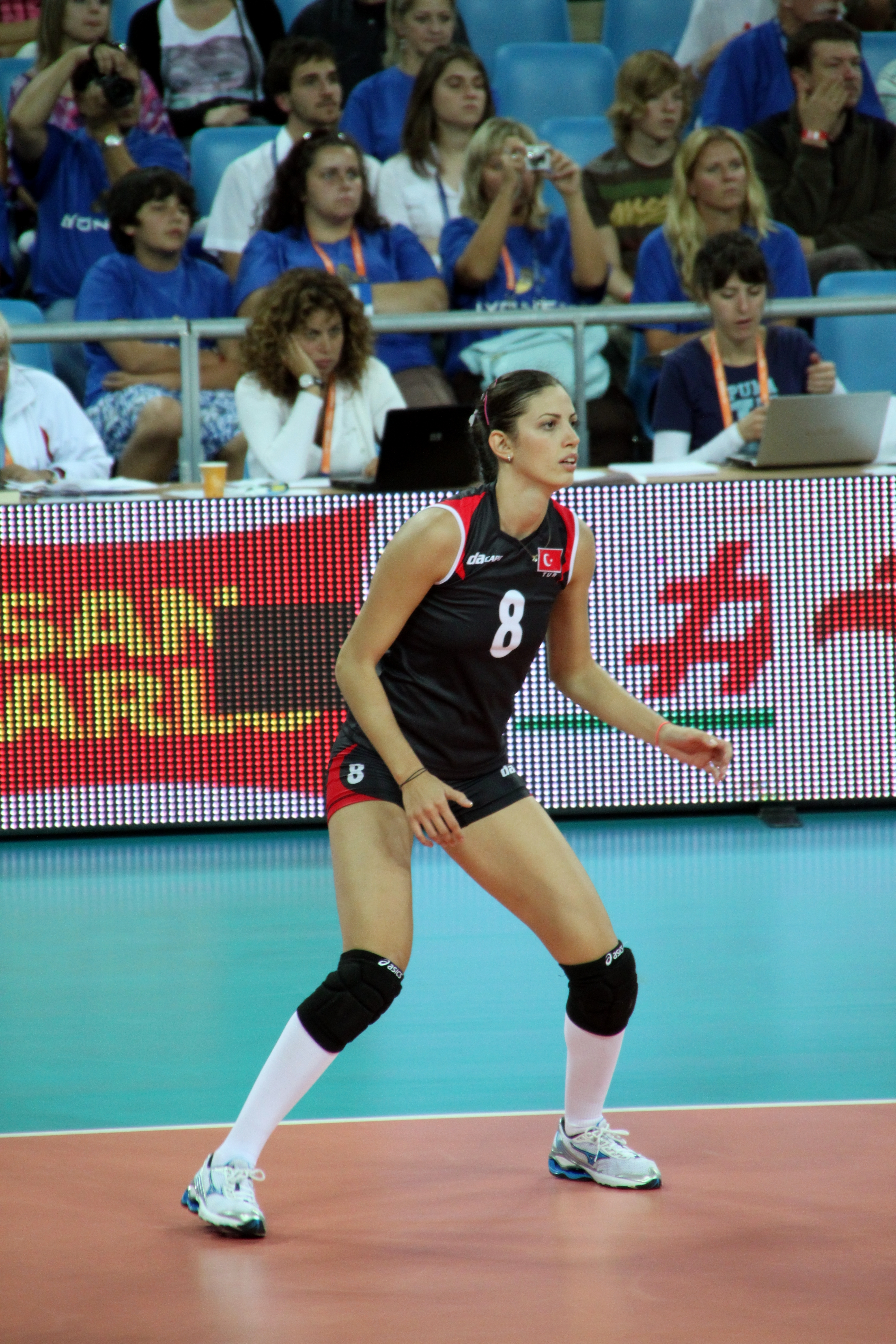 Turkish volleyball player, Toksoy Bahar, during the game between Germany and Turkey for the European Championship of Women's Volleyball 2009 in Poland... Germany 3:2 Turkey, Wroclaw, Poland, 27.09.2009 Germany 3:2 Turkey